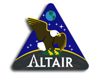 Insignia of the Altair Project a part of Project Constellation Quoting Orion Project Manager Skip Hatfield: "Obviously, the blue sphere that's in the 'O' of Orion is [a] representation of Earth, and that is our departure point for our journey of exploration," began Hatfield."... "The star field in this particular logo is designed to be a representation of the Orion star system," ... "There are 10 stars in the background that represent the 10 NASA centers who have an integral part in helping us be successful on the Constellation exploration vision." ... "The three stars that are in the foreground of the image represent Orion's belt as well as a representation of the exploration goals of 'Moon, Mars and beyond'." ... "And of course the red vector represents our path from the Earth on to these outer destinations,"